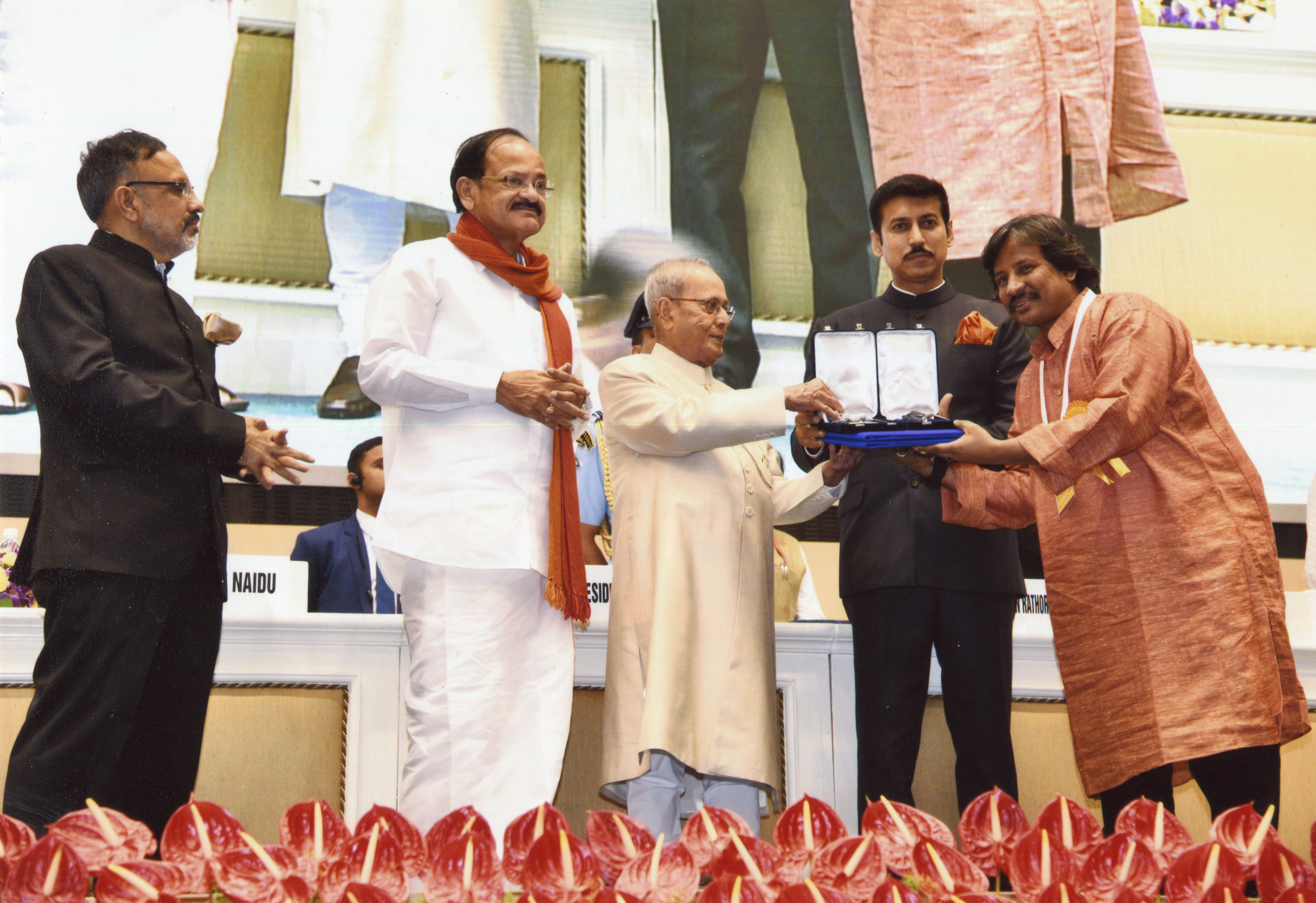 National Film Award-2016 Bapu Padmanabha Receiving Best Music and Best Background Score awards for his Musical work for the Kannada Feature Film Allama